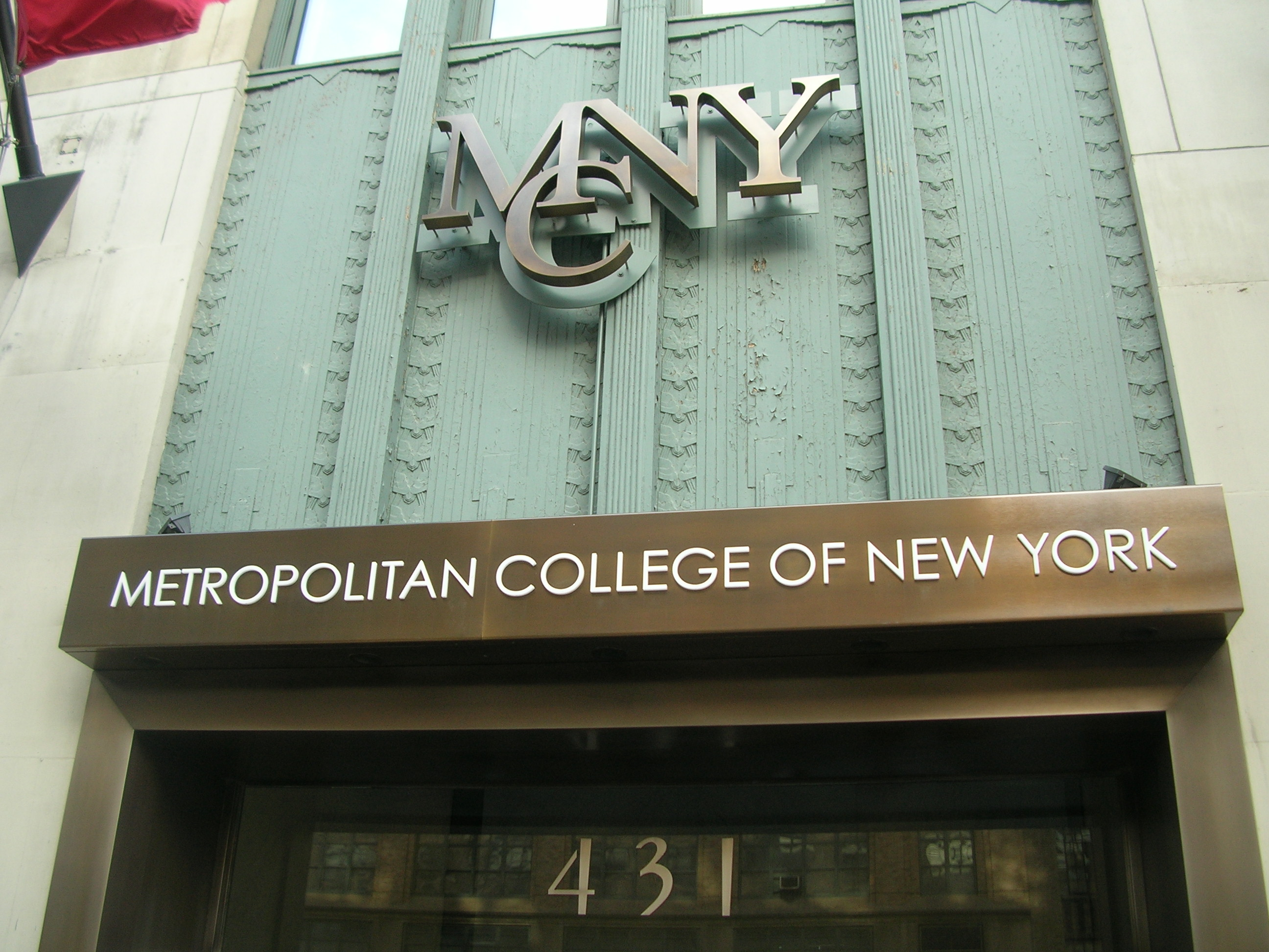 This photo is of Wikis Take Manhattan goal code H8, Metropolitan College of New York.